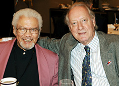 Frank Foster (left) and Dan Morgenstern at the 2008 NEA Jazz Masters reunion luncheon. Photo by Tom Pich